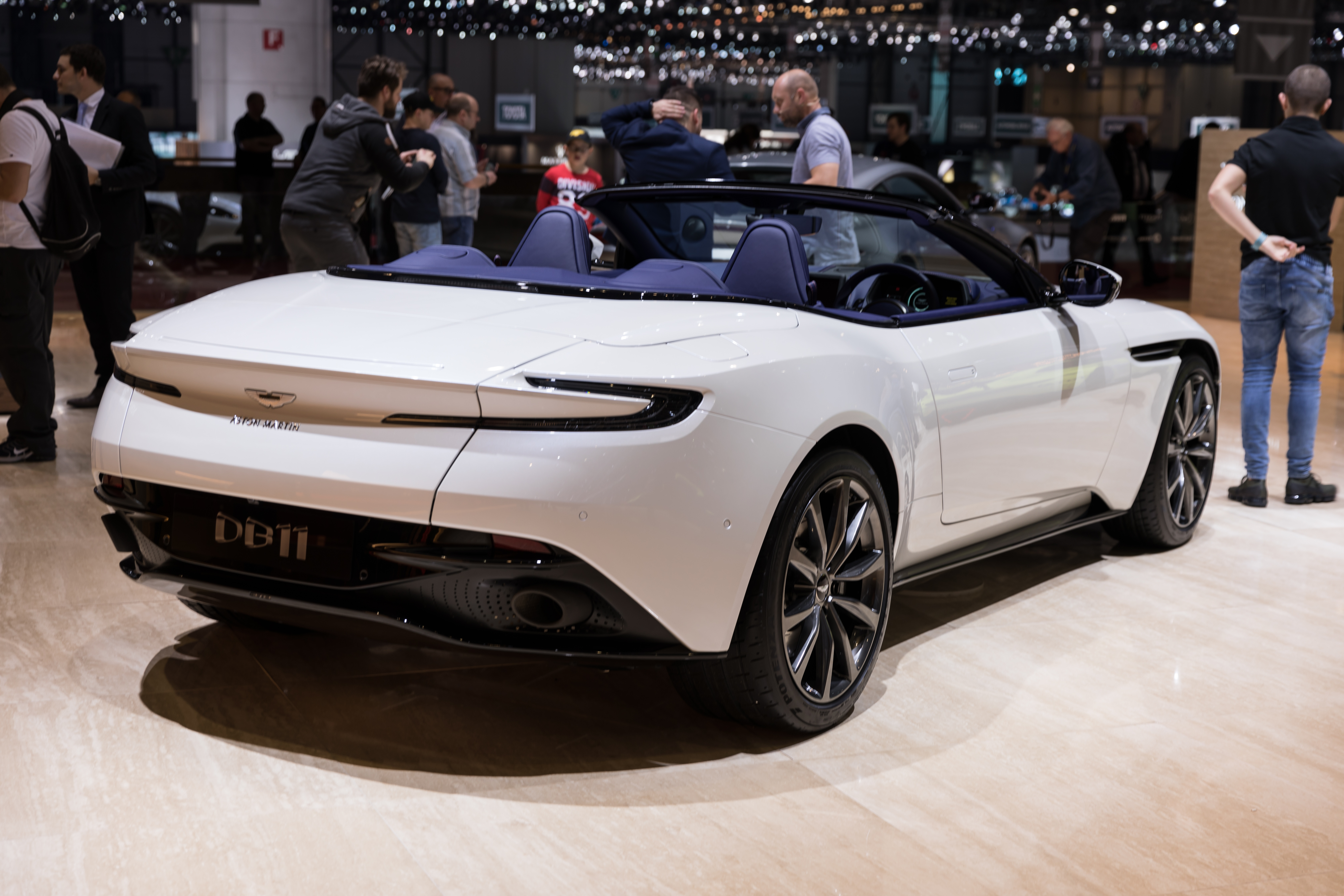 Aston Martin DB11 Volante at Geneva International Motor Show 2018